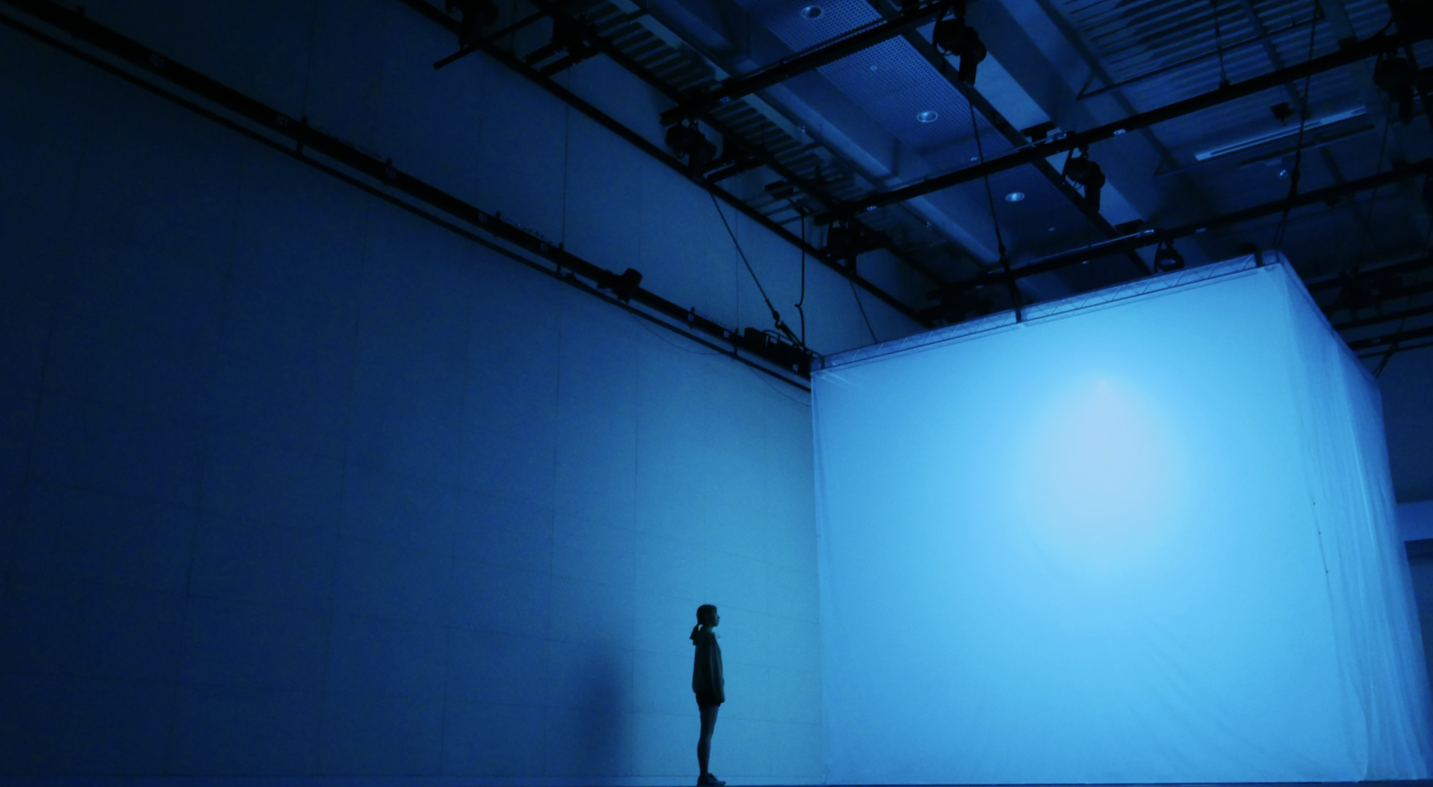 Sound Room @Asia Culture Center, GRAYCODE(Taebok Cho)